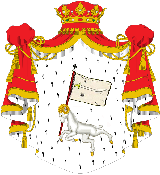 COA of Jaqeli